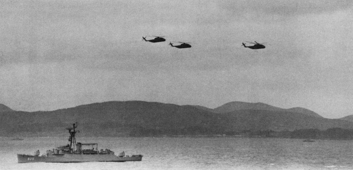 U.S. Marine Corps Sikorsky CH-53 Sea Stallion helicopters fly over the South Korean frigate ROKS Ung Po (DE-825) during the exercise "Team Spirit 1982", in March-April 1982. Ung Po had originally been commissioned as USS Julius A. Raven (APD-110).